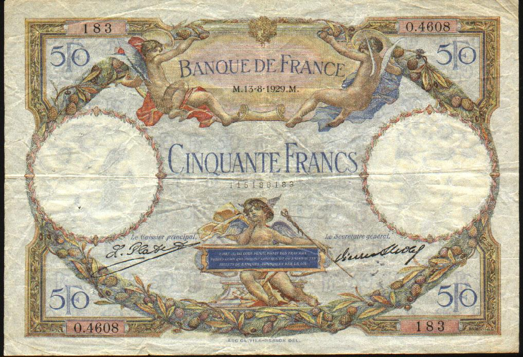 France 50 Francs-1929